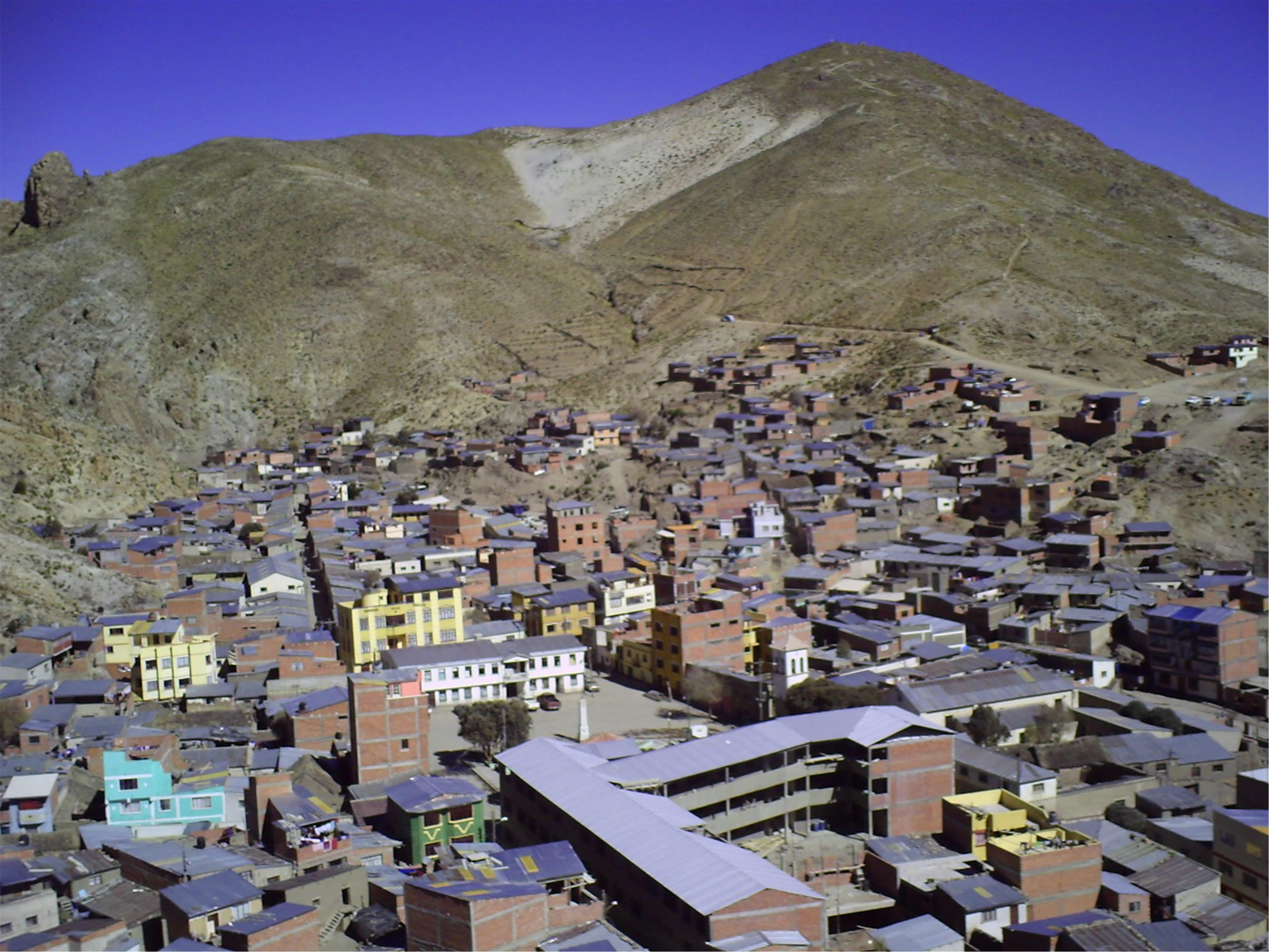 Panoramic view of the village of Porco.